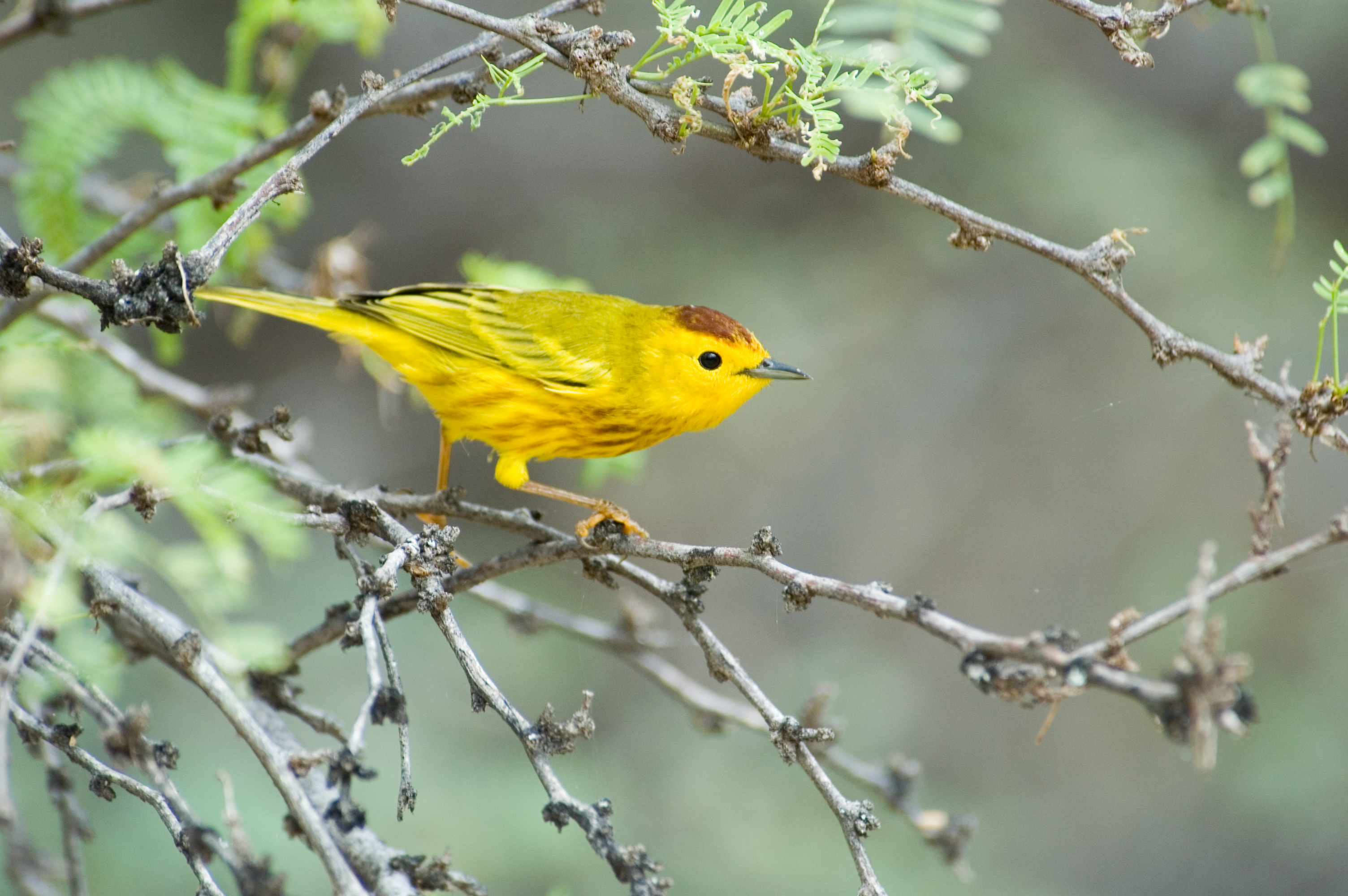 Male Golden Warbler (Dendroica petechia rufopileata). Washington-Slagbaai National Park, Labra, Bonaire